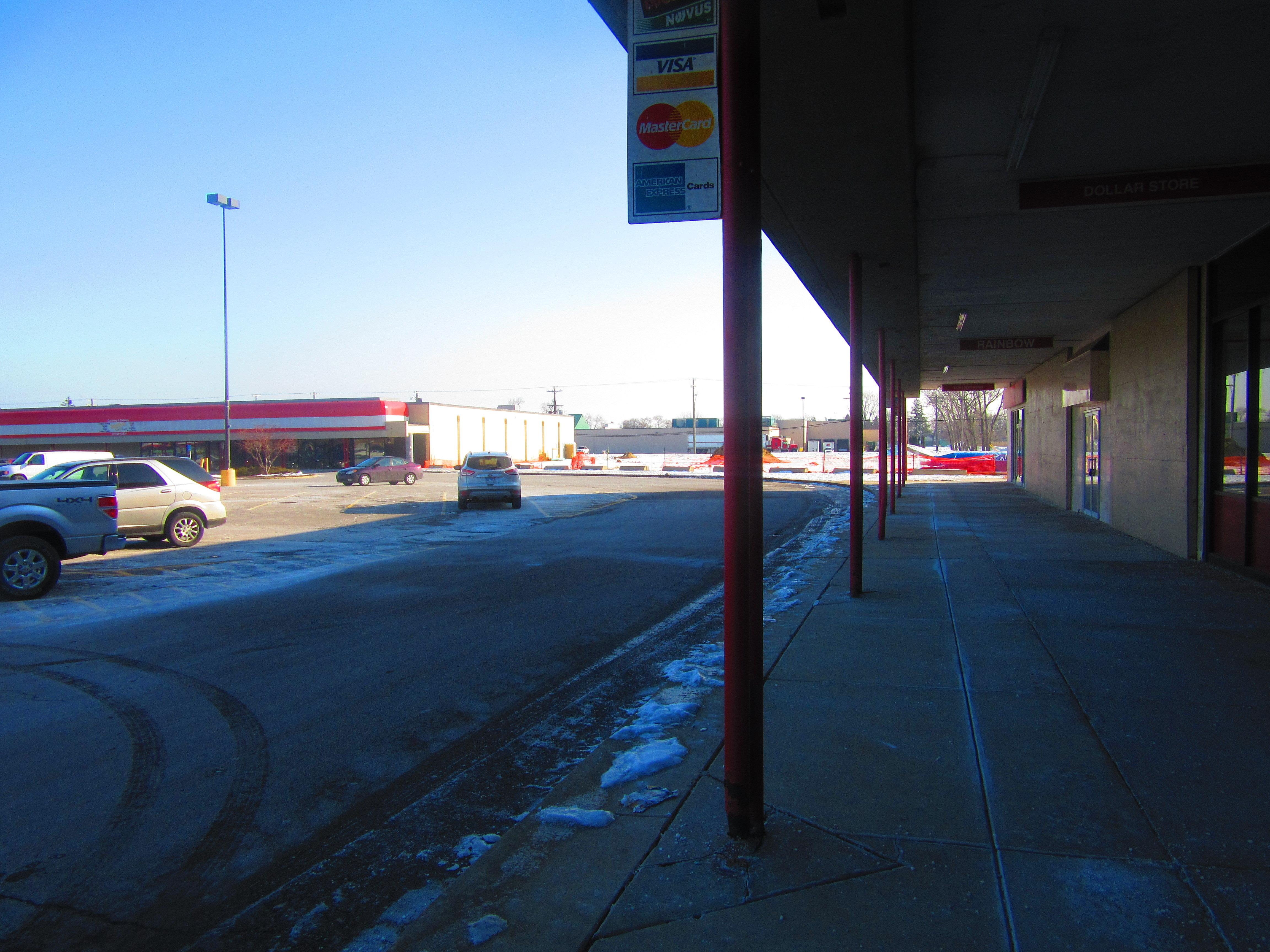 Southgate Shopping Center, taken by me on January 31st, 2015.